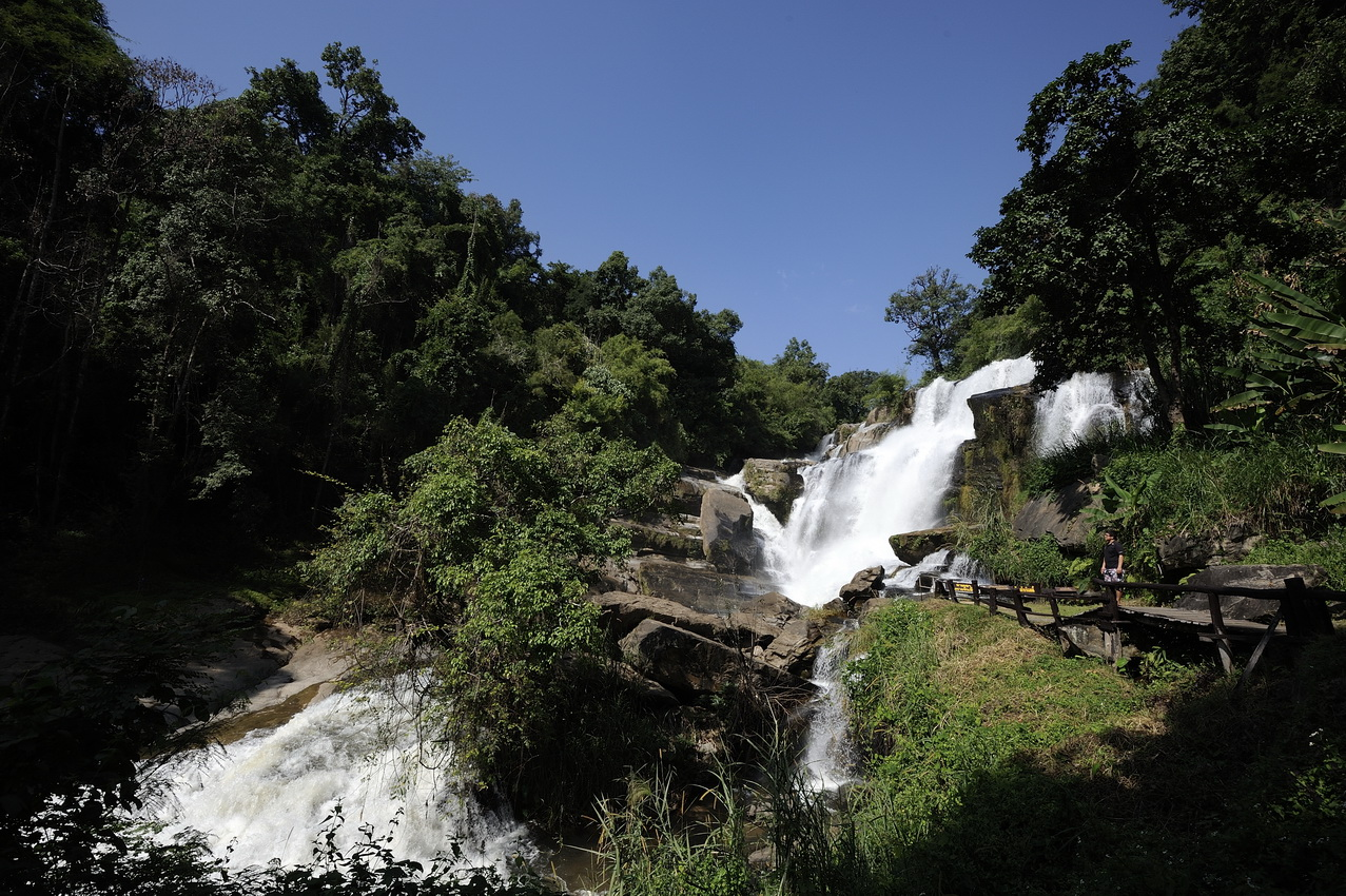 Mae Klang Waterfall is located at the 31st Kilometers on the way to Doi Intanon. It is a beautiful and abundant waterfall surrounded with natural plants interbreeding. The location of Mae Klang waterfall is in the territory of Doi Hua Chang. There is a zone of Archaeology called “Par Khanna.” It is an upper cliff of Mae Klang waterfall where there are several prehistoric period color paintings of animals which look like elephants and where several patterns of symbols are located. It is suitable to visits particularly for tourists who are interested in history and archaeology.